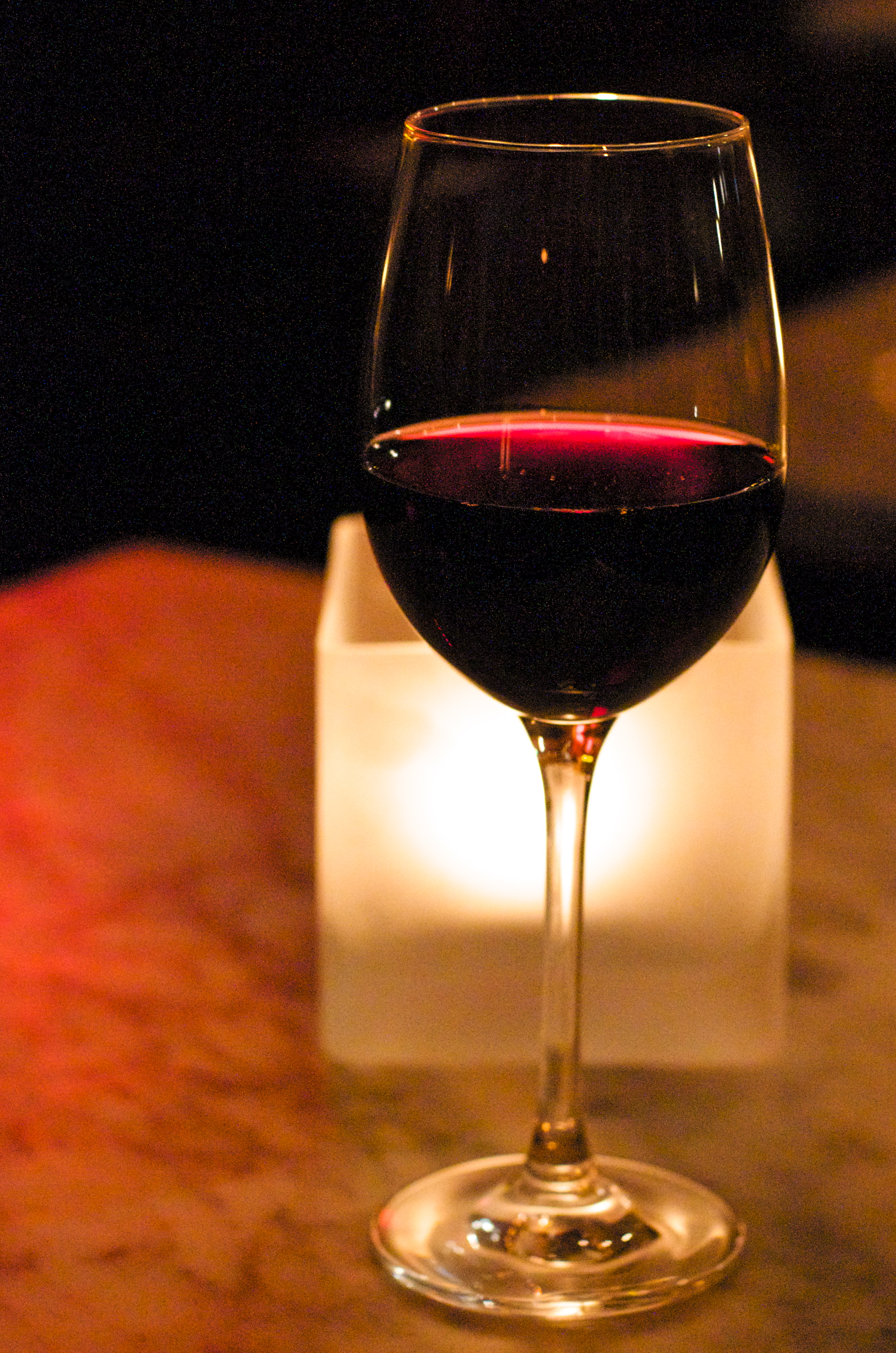 A glass of Malbec wine